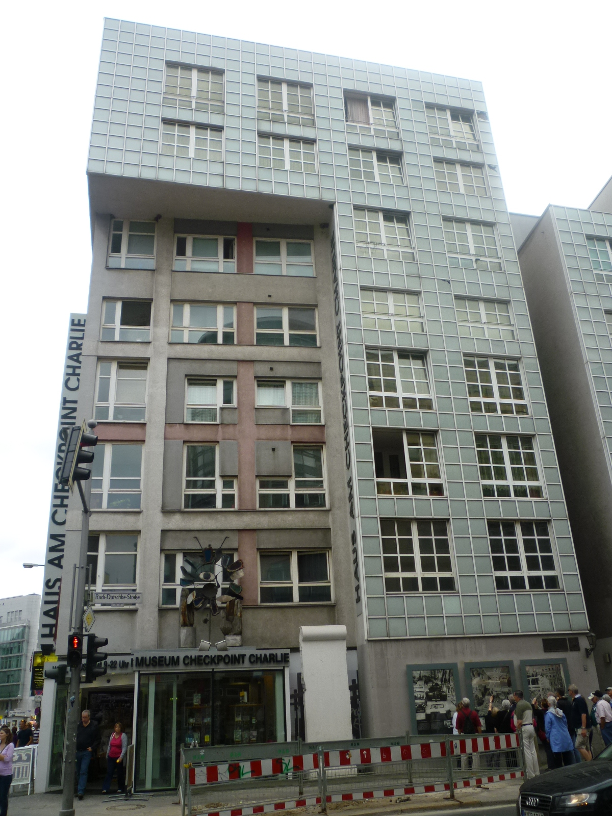 Checkpoint Charlie Museum in Berlin, Germany